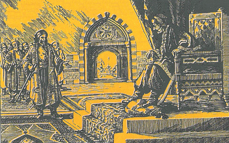 Prince Fakhreddin I of Lebanon at the court of Sultan Selim I in Damascus (1516).